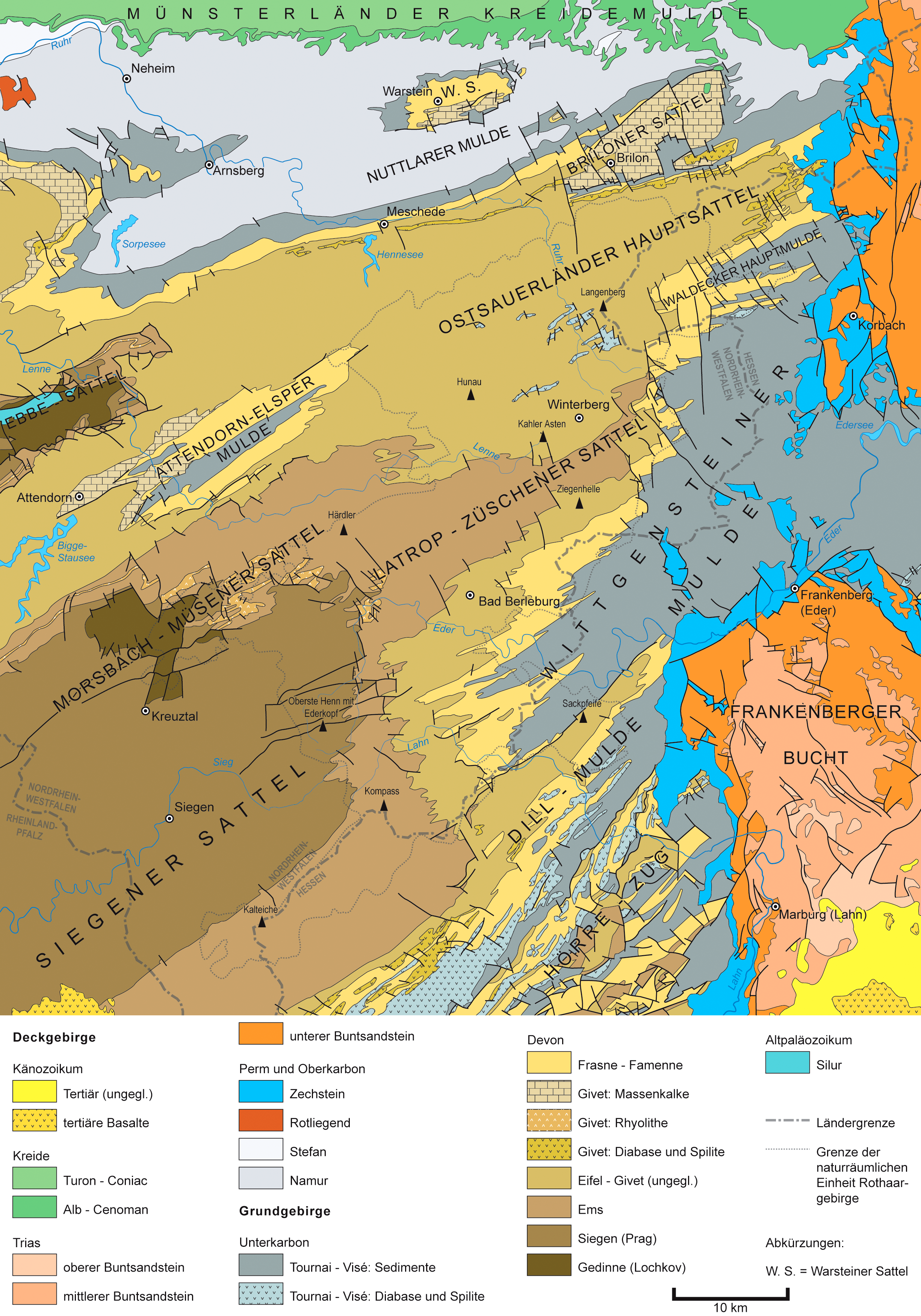 Geology of the northeastern Part of the Rhenish Massif and adjacent areas (without Quaternary), according to GÜK 300 Hessen and Walter (1995).